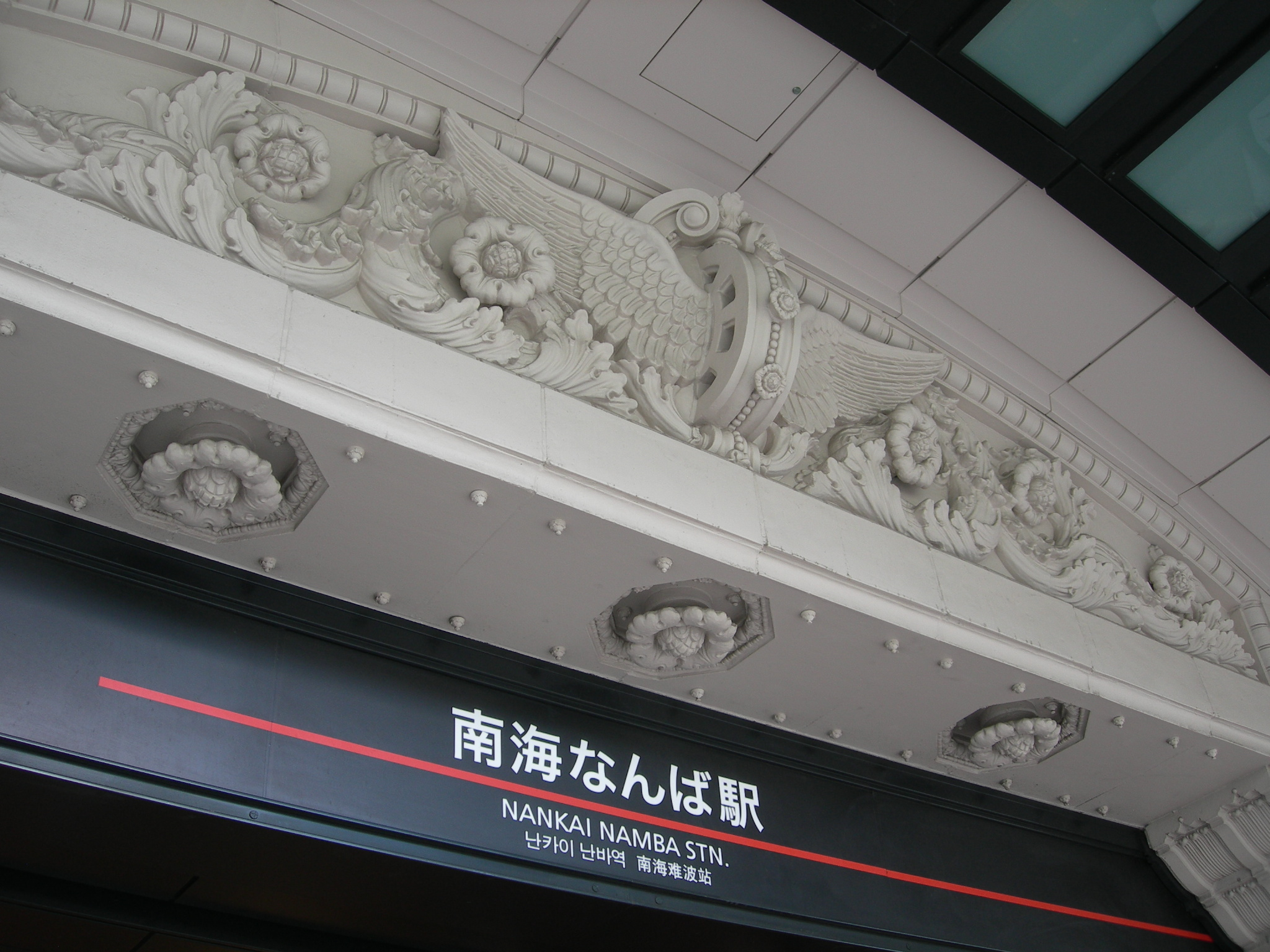 Monument of "Haguruma", Namba Station, Nankai Electric Railway.